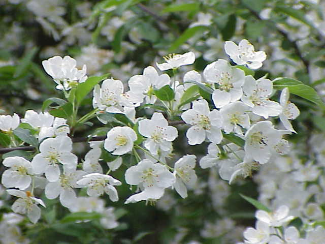 Species: Malus toringo sargentii Family: Rosaceae Image No. 1